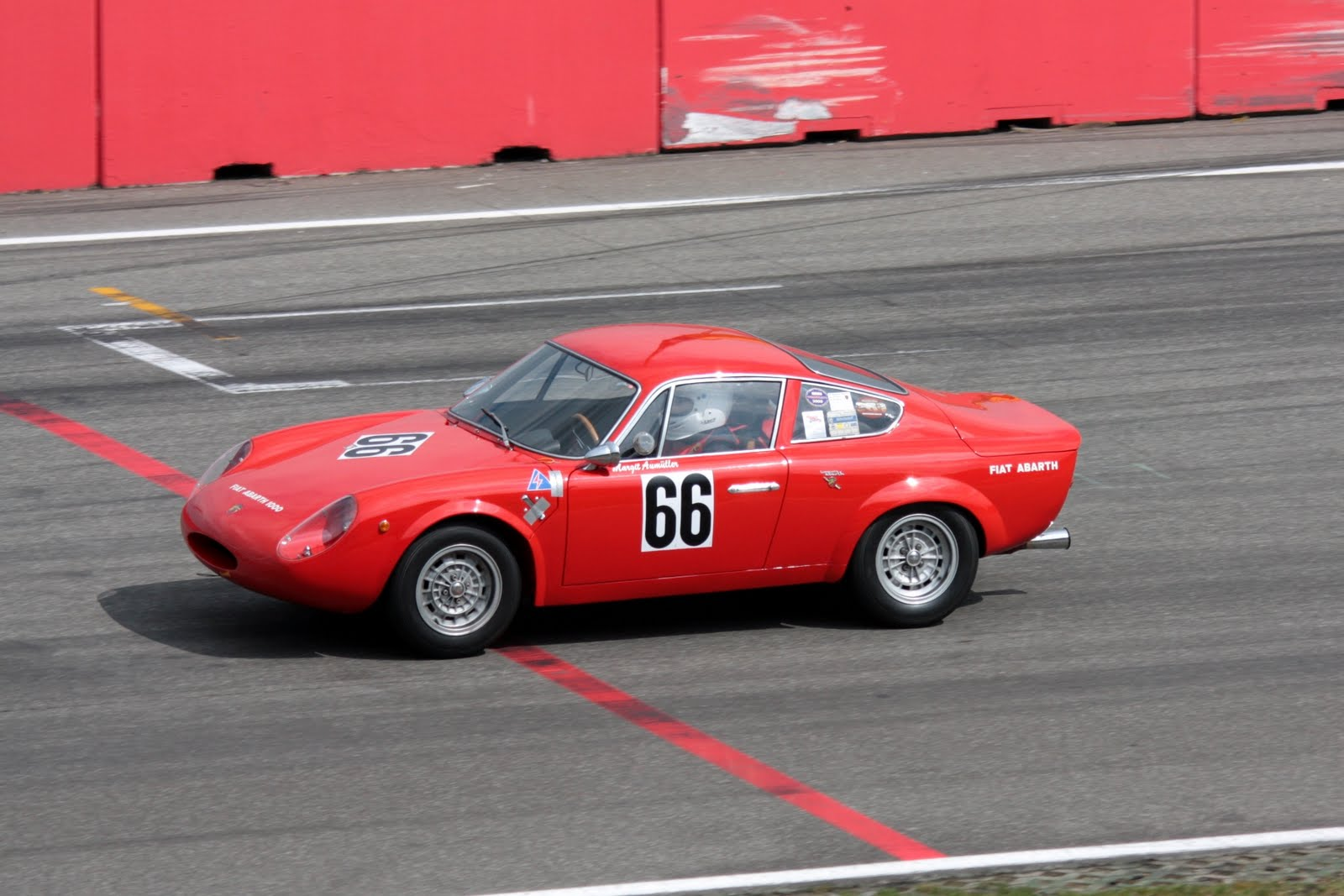 An Abarth 1000 GT Bialbero competing at Hockenheim Historic regularity rally "Kampf der Zwerge" in 2011.